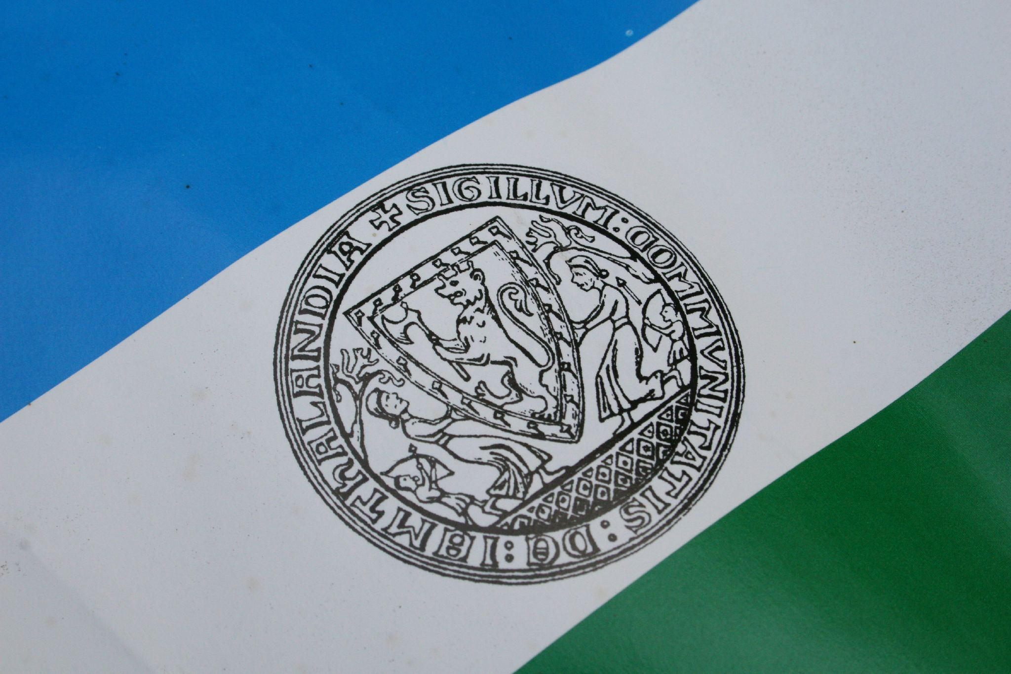 Flag of the republic of Jamtland